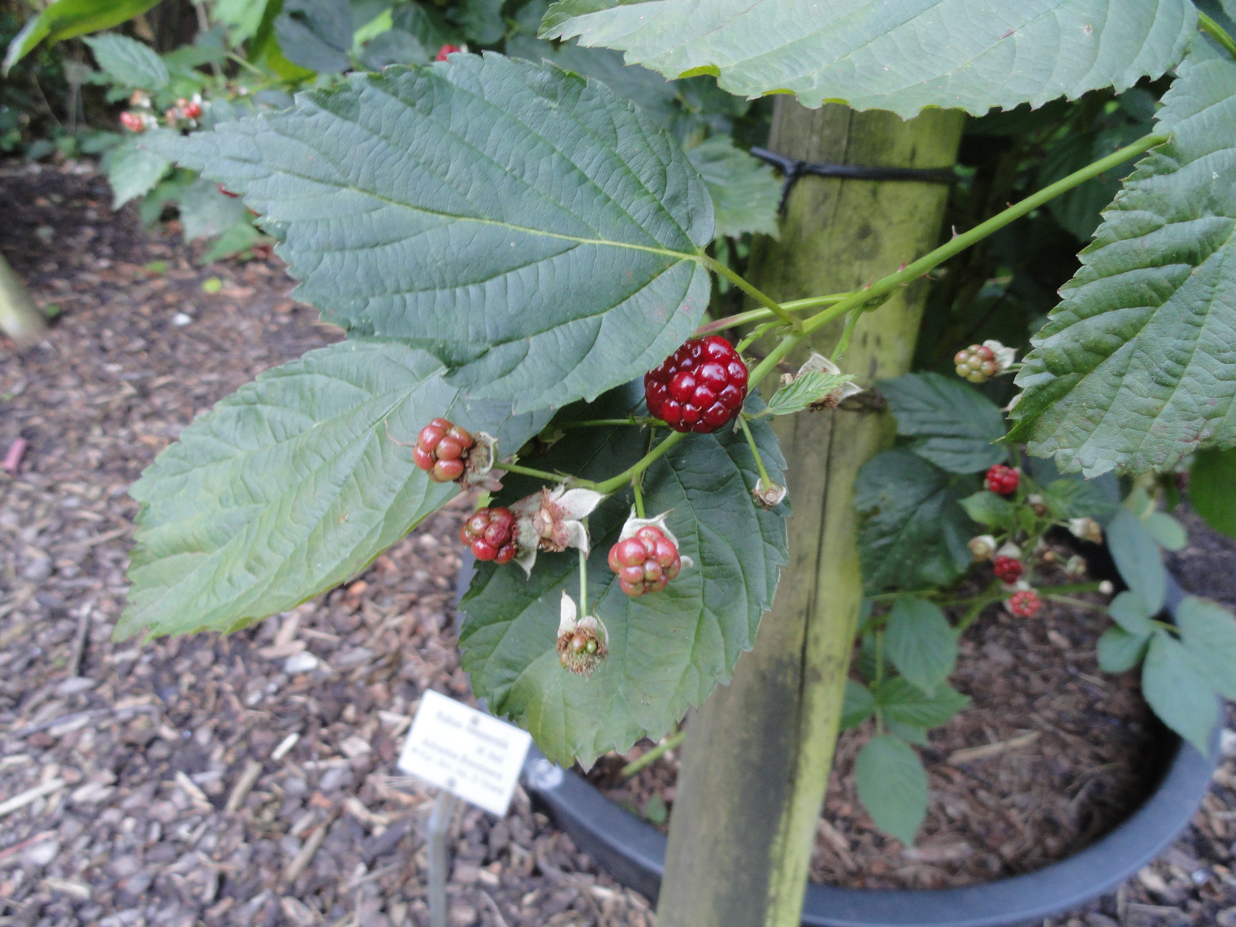 Botanical specimen in the Botanischer Garten, Frankfurt am Main, located at Siesmayerstraße 72, Frankfurt am Main, Germany.